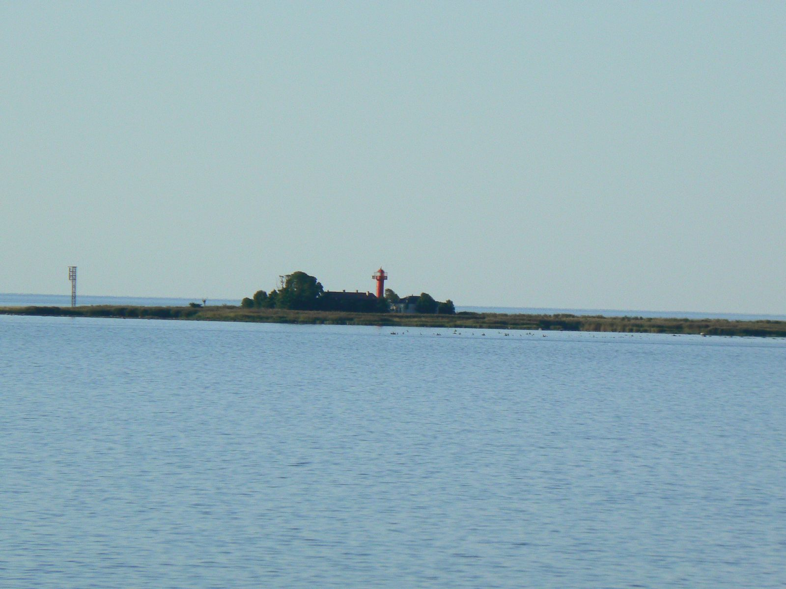 View to the islet Viirelaid in Estonia